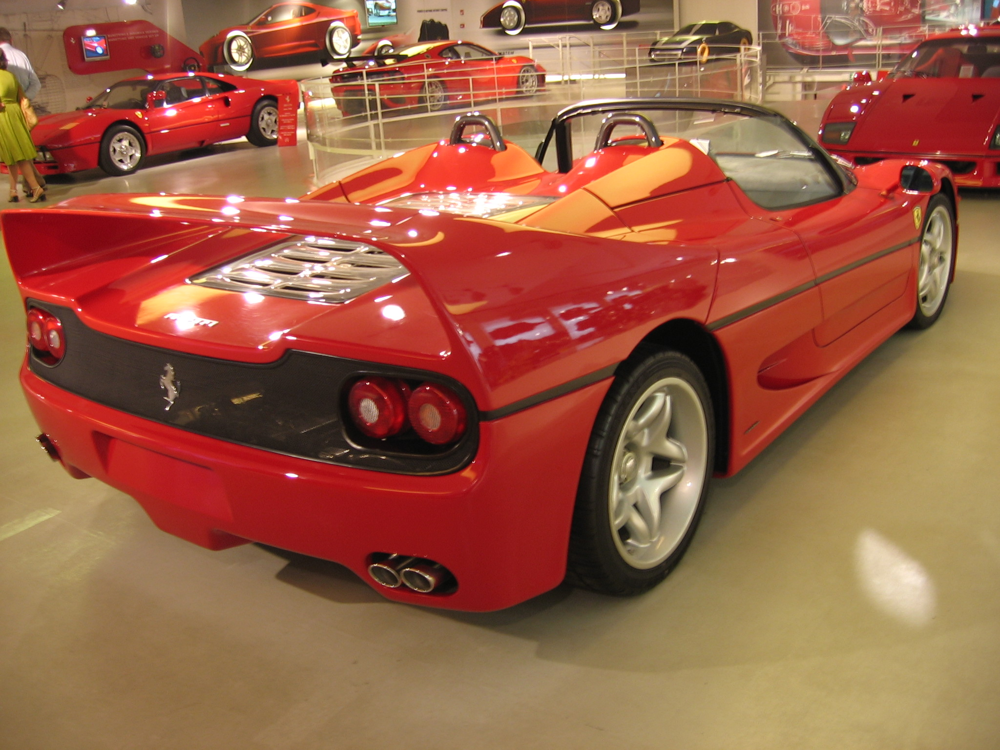 Ferrari F50 in the Galleria Ferrari